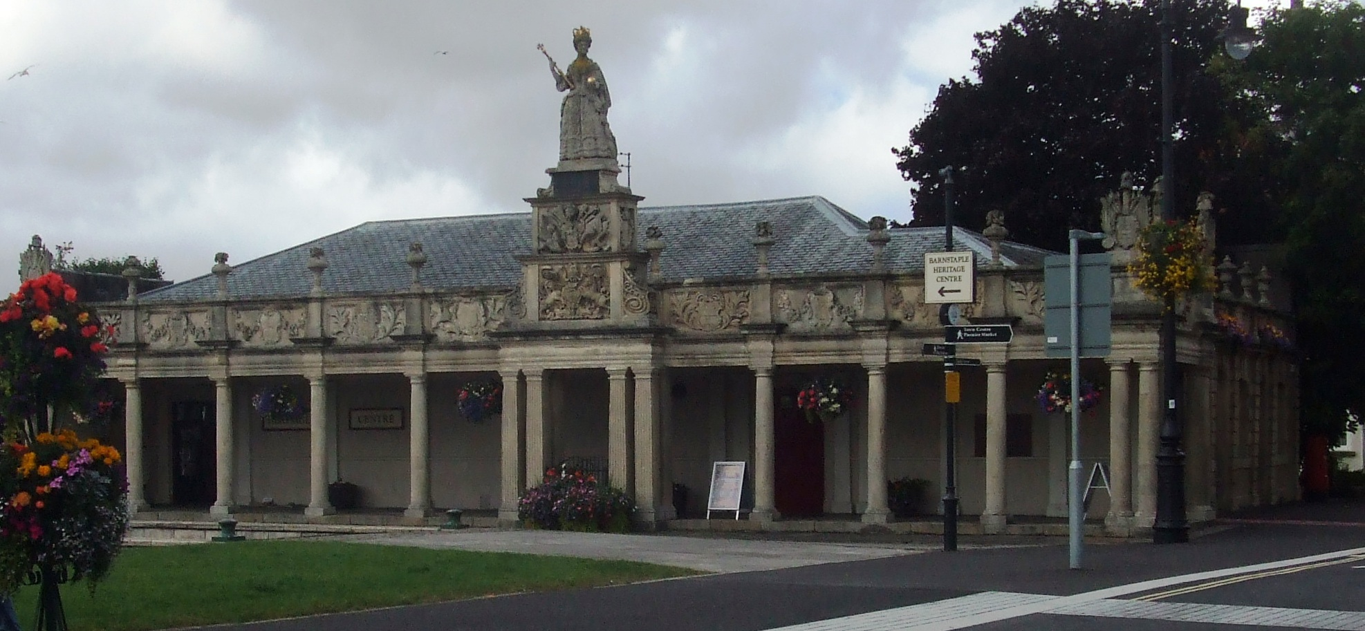 Barnstaple Heritage Centre